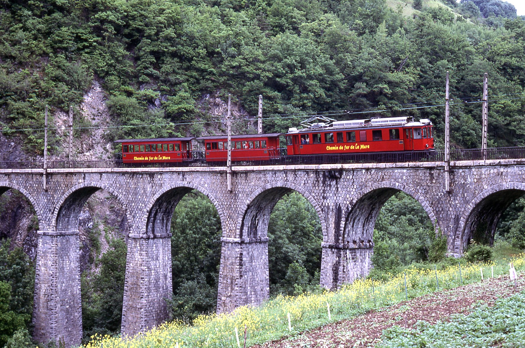 An ex-Nyon–St. Cergue motor tram and trailers on the Chemin de Fer de La Mure in the 1980s.